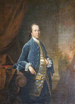 Portrait of Denys Rolle (1725-1797) of Hudscott House, Chittlehampton, Devon, painted by Thomas Hudson (1701-79). Oil on canvas 158*128cms. Collection of Great Torrington Almshouse, Town Lands and Poors Charities, formerly the property of Hon. Mark Rolle (d.1907) of Stevenstone and donated by his heir Lord Clinton.